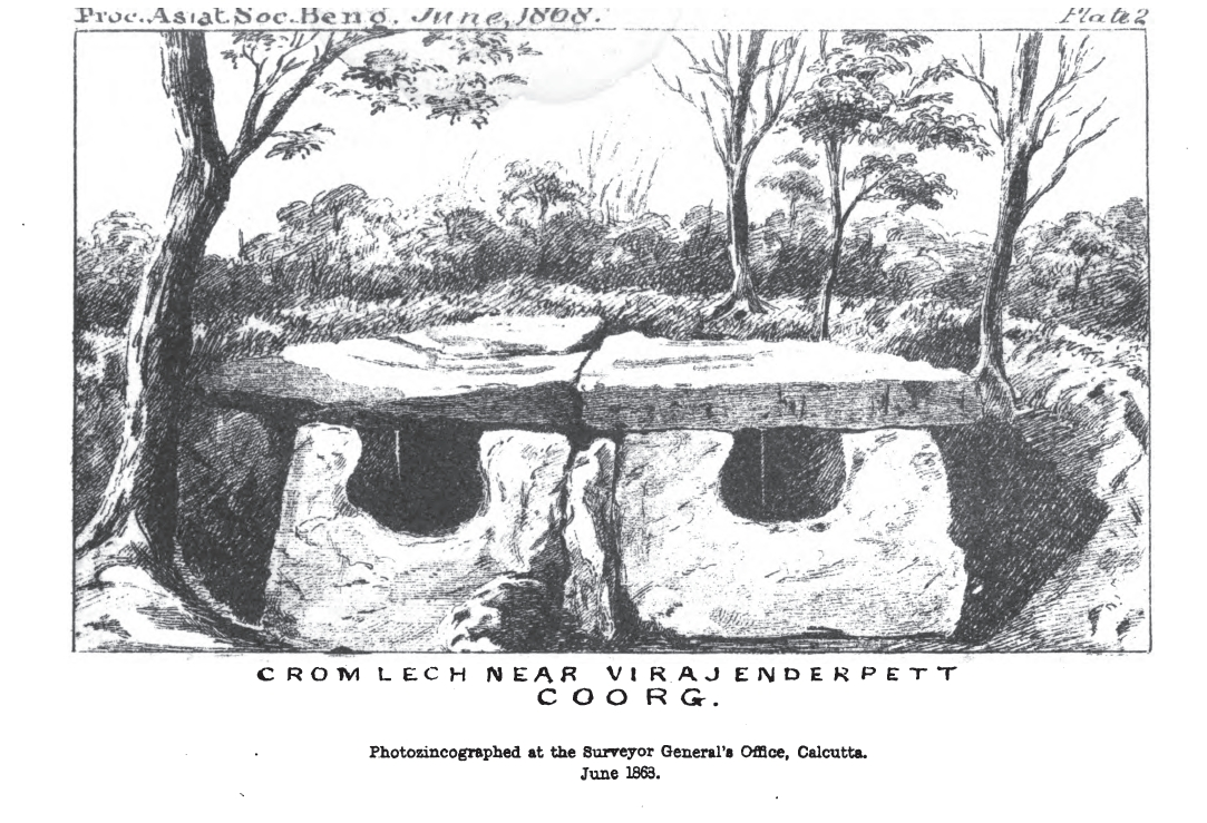 A burial urn / Cromlech from near Virarajendrepet, Coorg